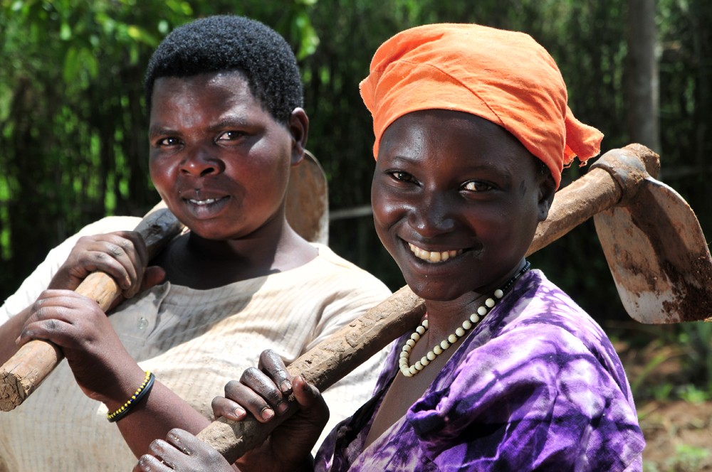 Pic by Neil Palmer (CIAT). Pineapple farmers in the Ntungamo district of Uganda.